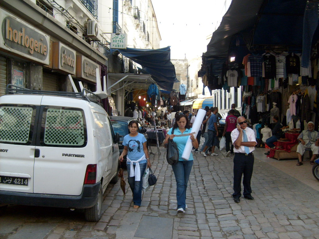 Rue Zarkoun in Tunis, Tunisia. This street is one of the landmarks of informal trade in Tunis.